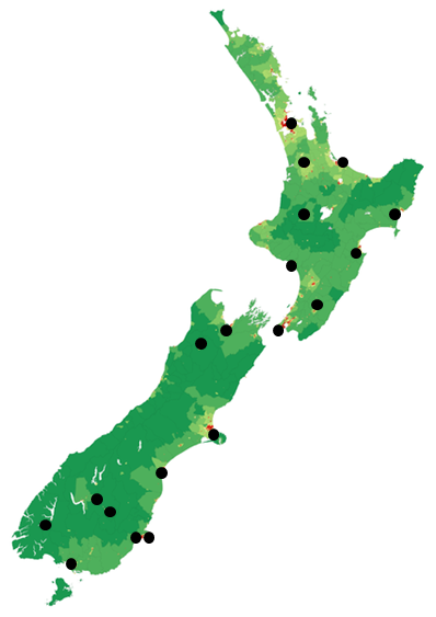 This is a map of Star frequencies and population density in New Zealand.